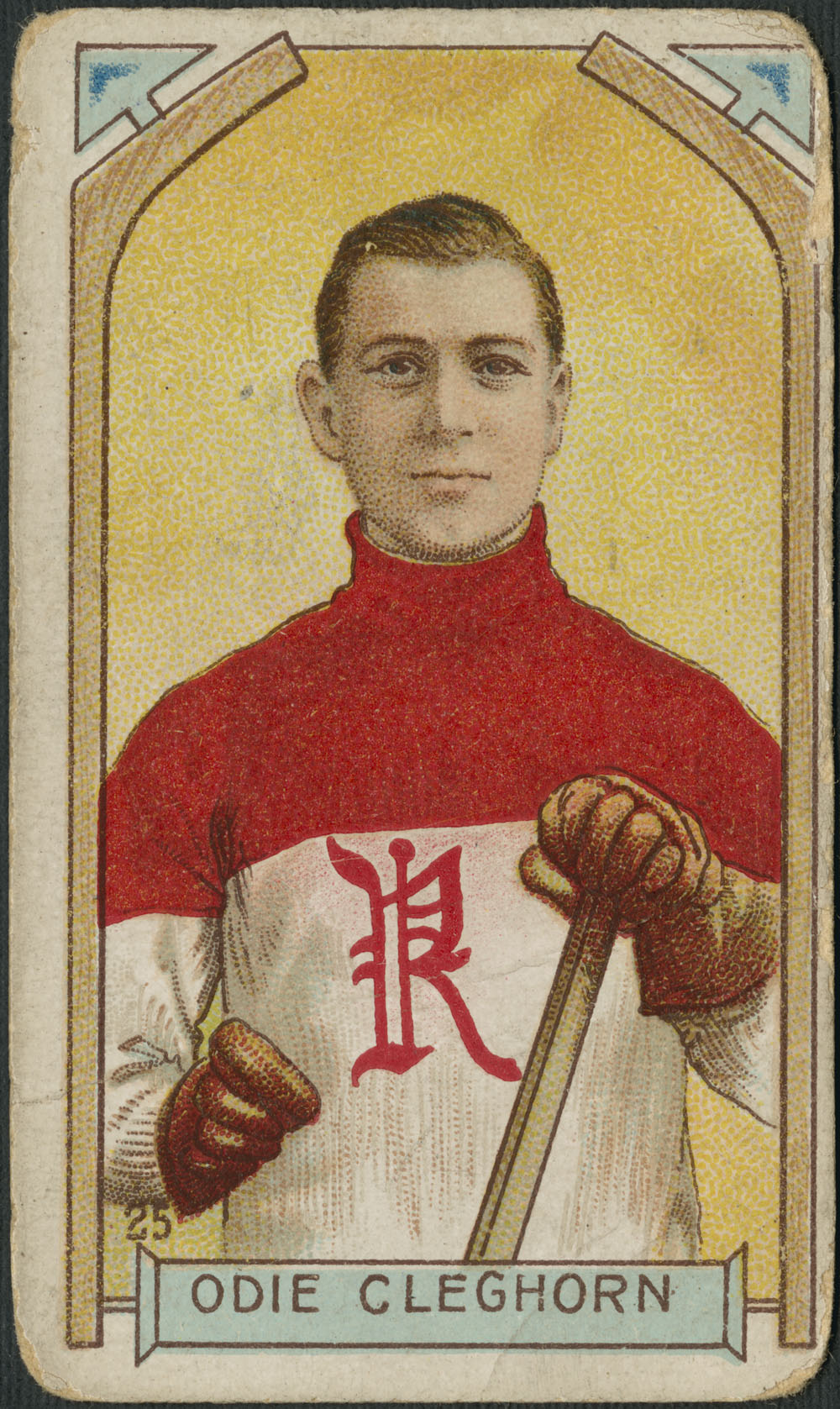 Odie Cleghorn hockey card